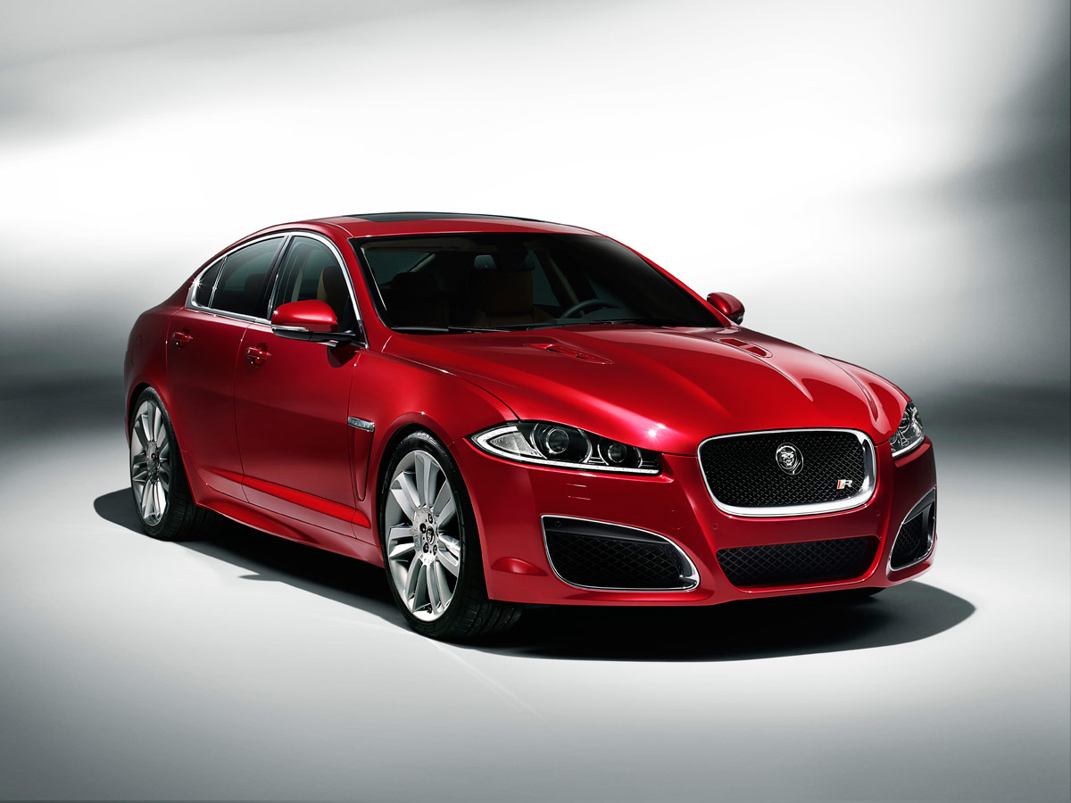 2012-Jaguar-XFR-front-studio